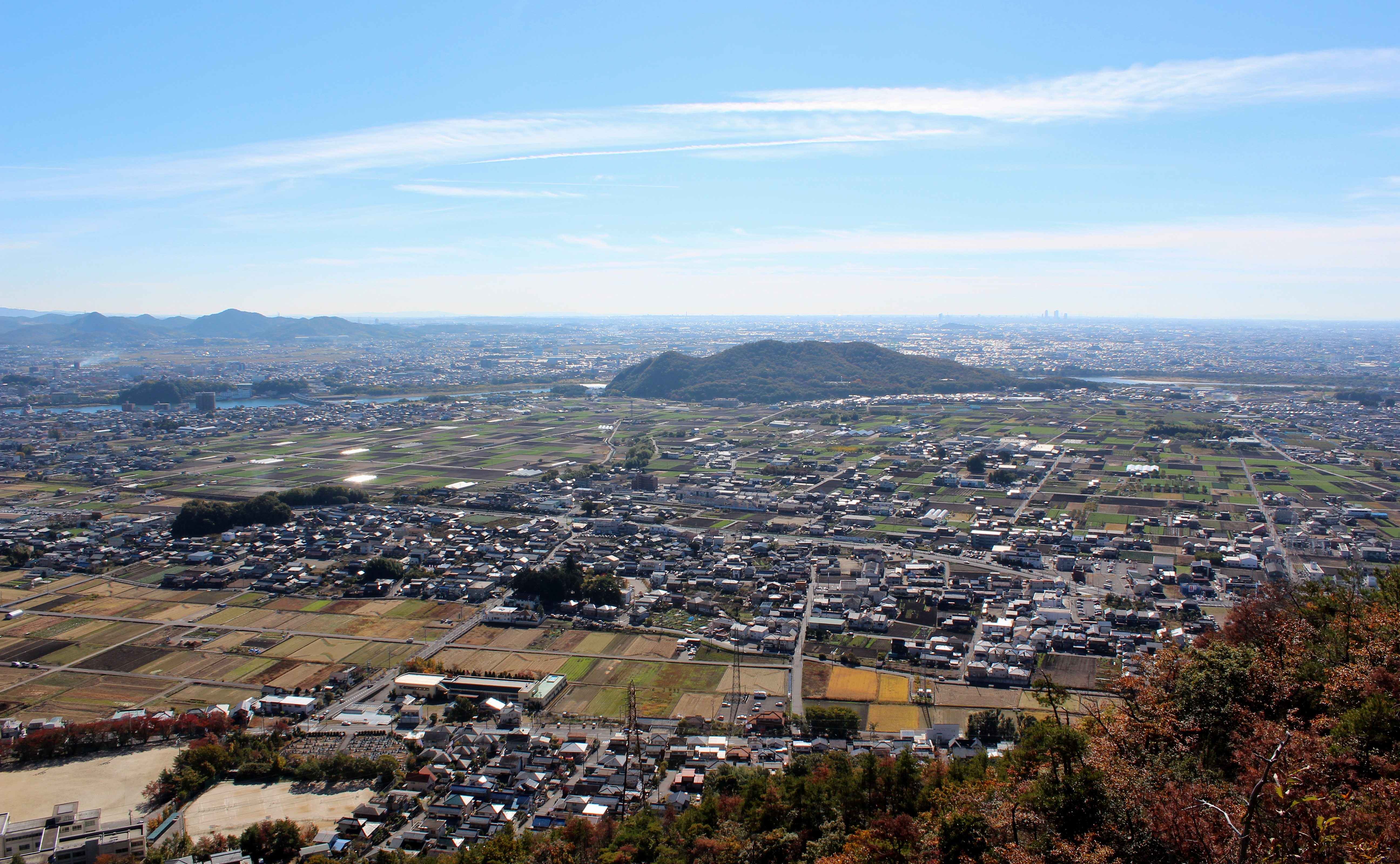 Kakamigahara Plateau around Mount Igi seen from Mount Atago in Kakamigahara, Gifu prefecture, Japan.